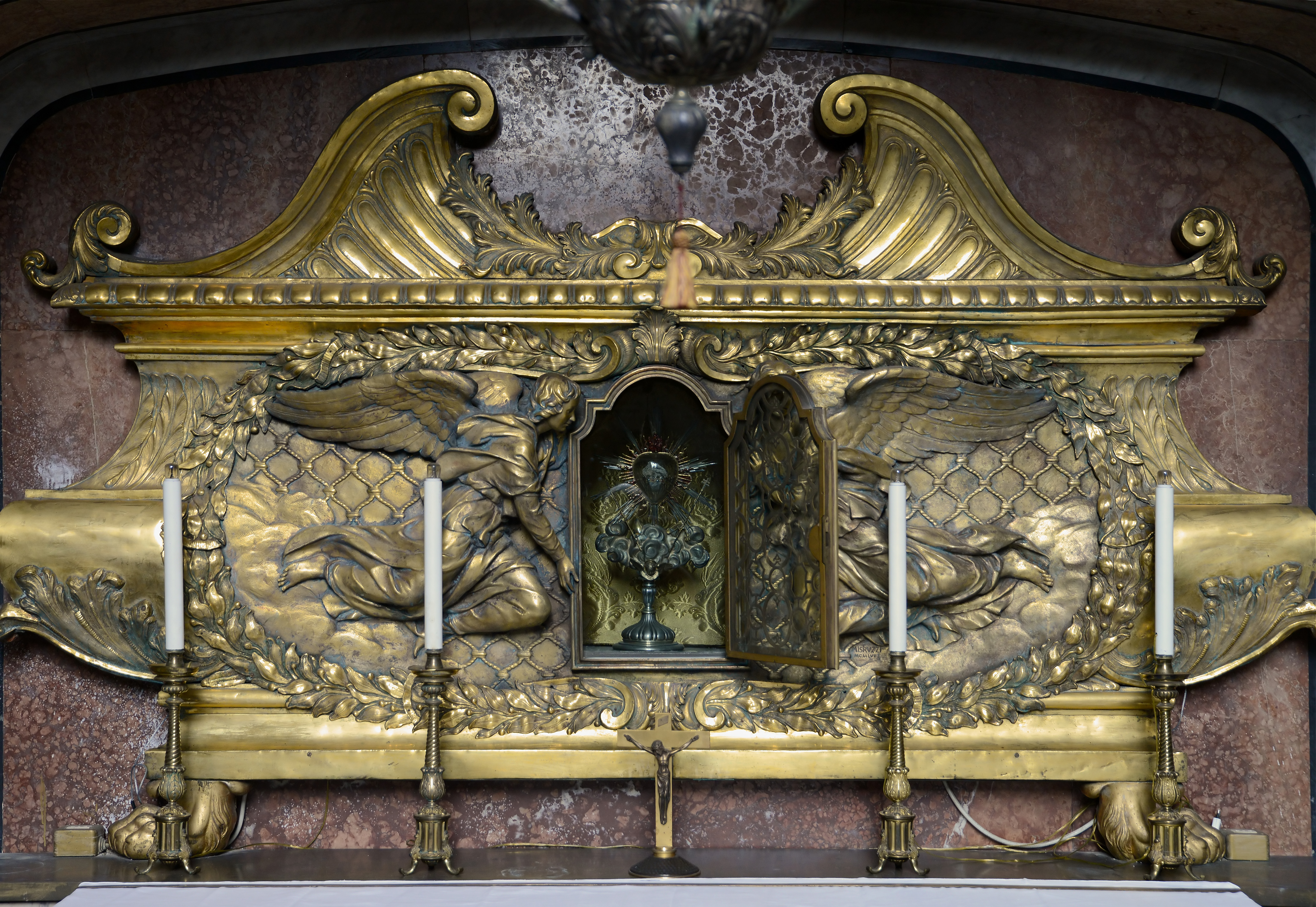 Reliquary with the heart of Saint Charles, in the Church of San Carlo al Corso, Rome